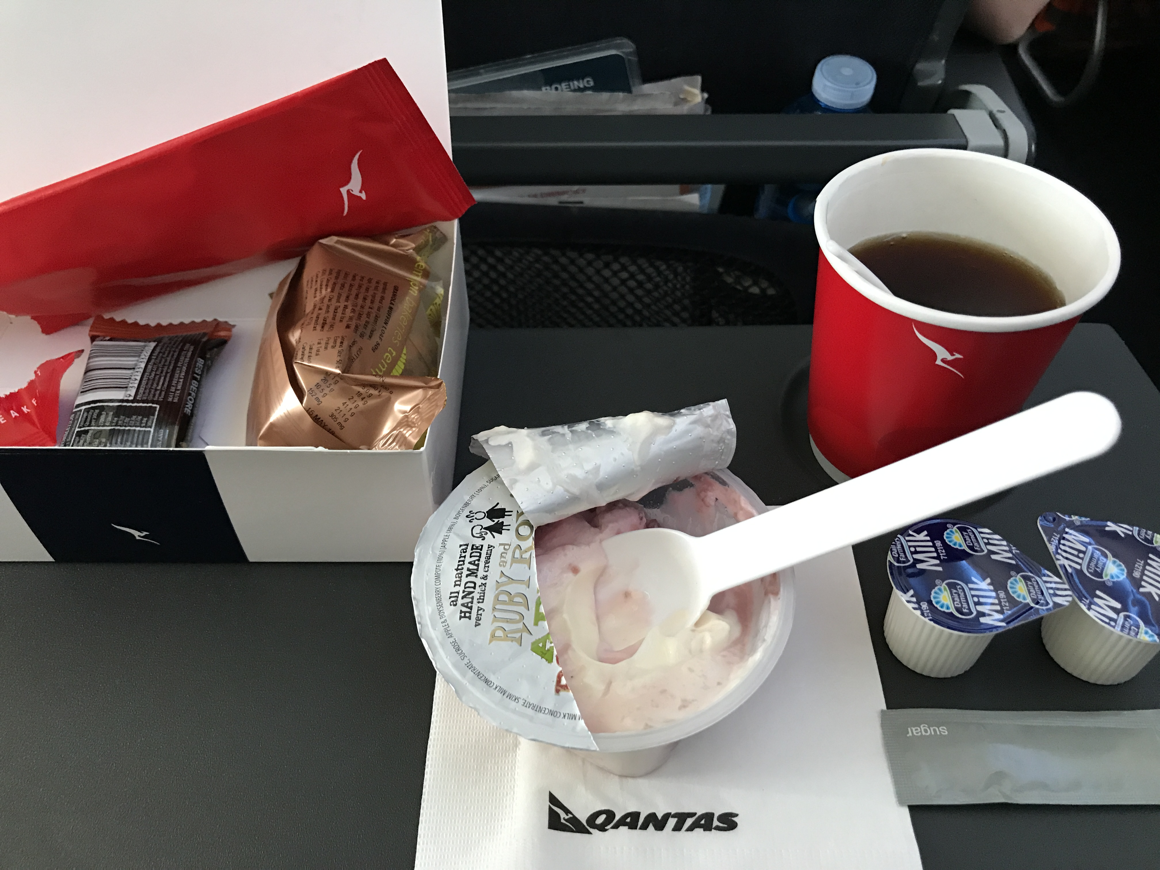 Breakfast, Economy class Qantas in-flight meal in 2017